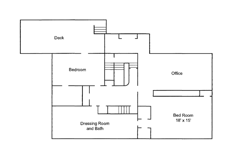 Floorplan of the 2nd floor of the Graceland Mansion in Memphis, Tennessee. Information is from the Graceland nomination as a National Historic Landmark in 2004.